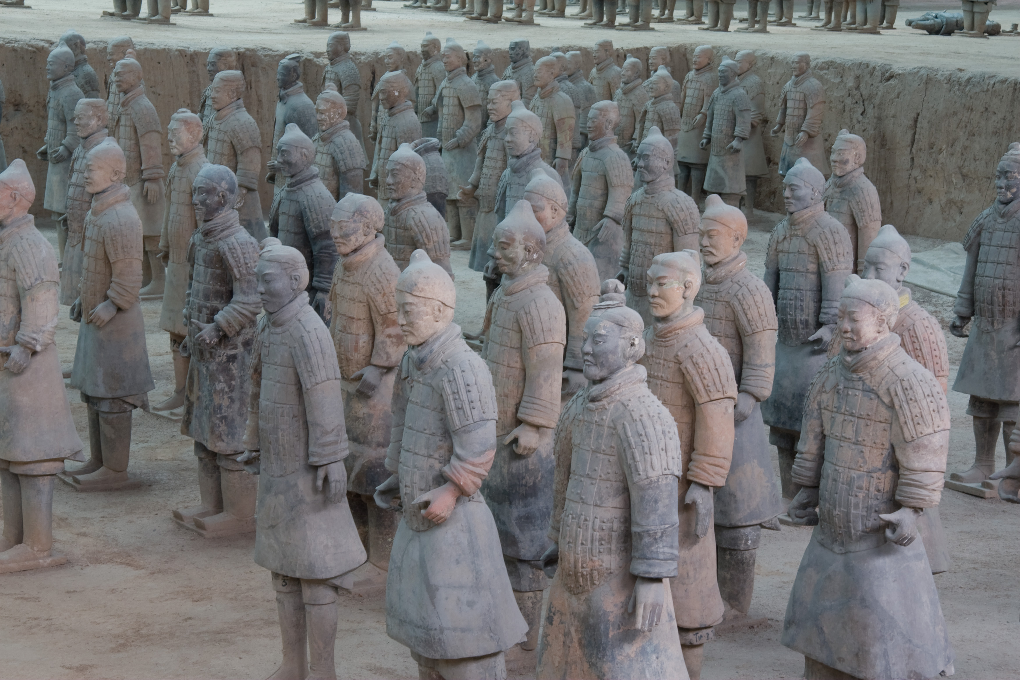 Terracotta Army Pit 1 - in Xi'an, China